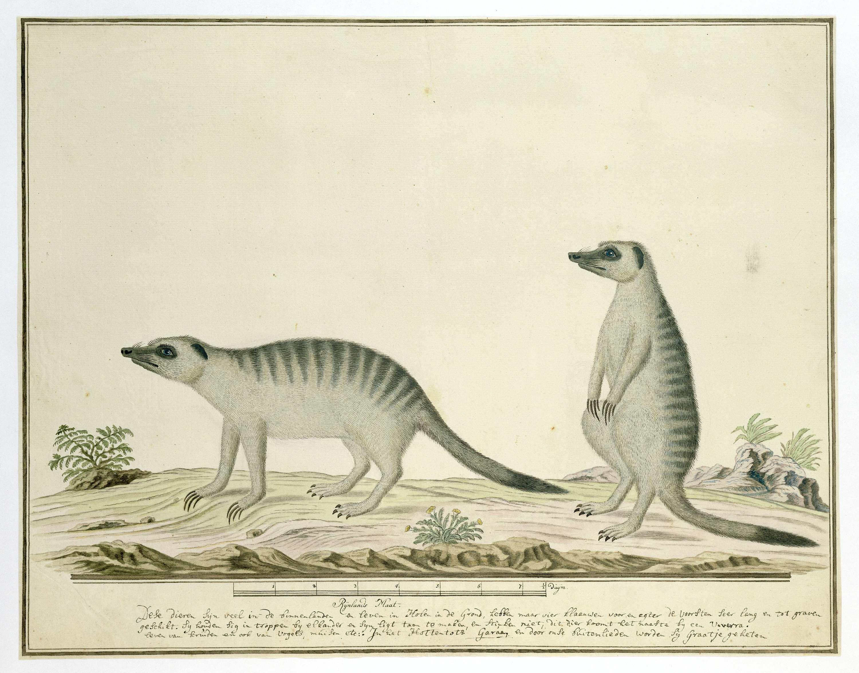 These animals are plentiful in the interior and live in holes in the ground. They have only four claws in front and behind, the front ones are very long and suitable for digging. They live in groups and are easily tamed, and they do not stink. this animals comes close to a viverra. They live on plants and on also birds, mice etc. In the Hottentot language called garáa, and our farmers call them graatje.